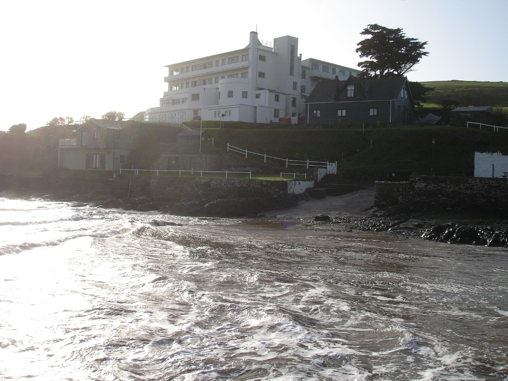 View on Burgh Island Hotel on Burgh Island, Devon, England